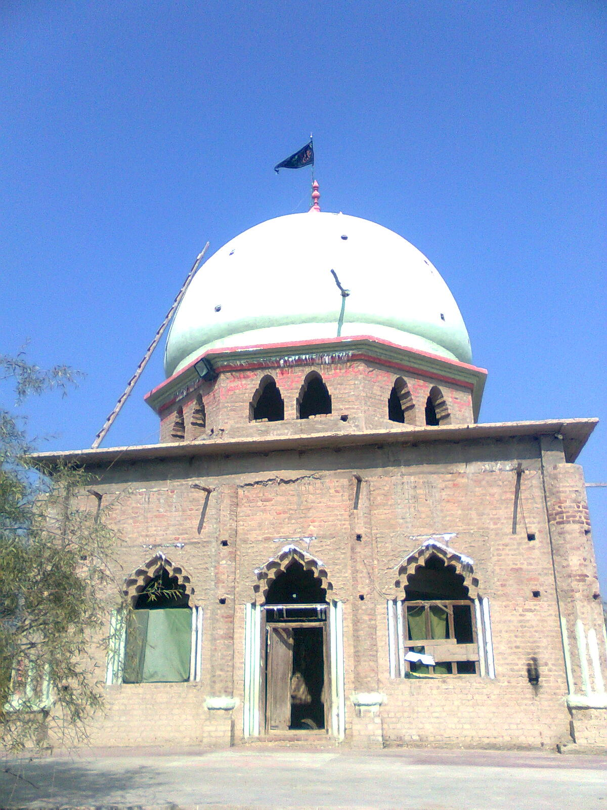 Great sufi saint Shaheed Pir Chandam district shikarpur sind pakistan